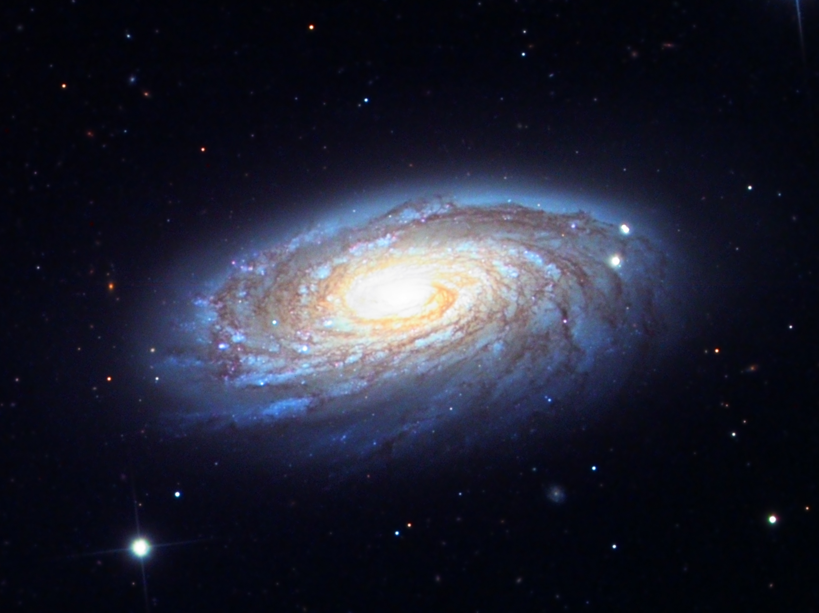 Messier 88, 24 inch telescope on Mt. Lemmon, AZ.